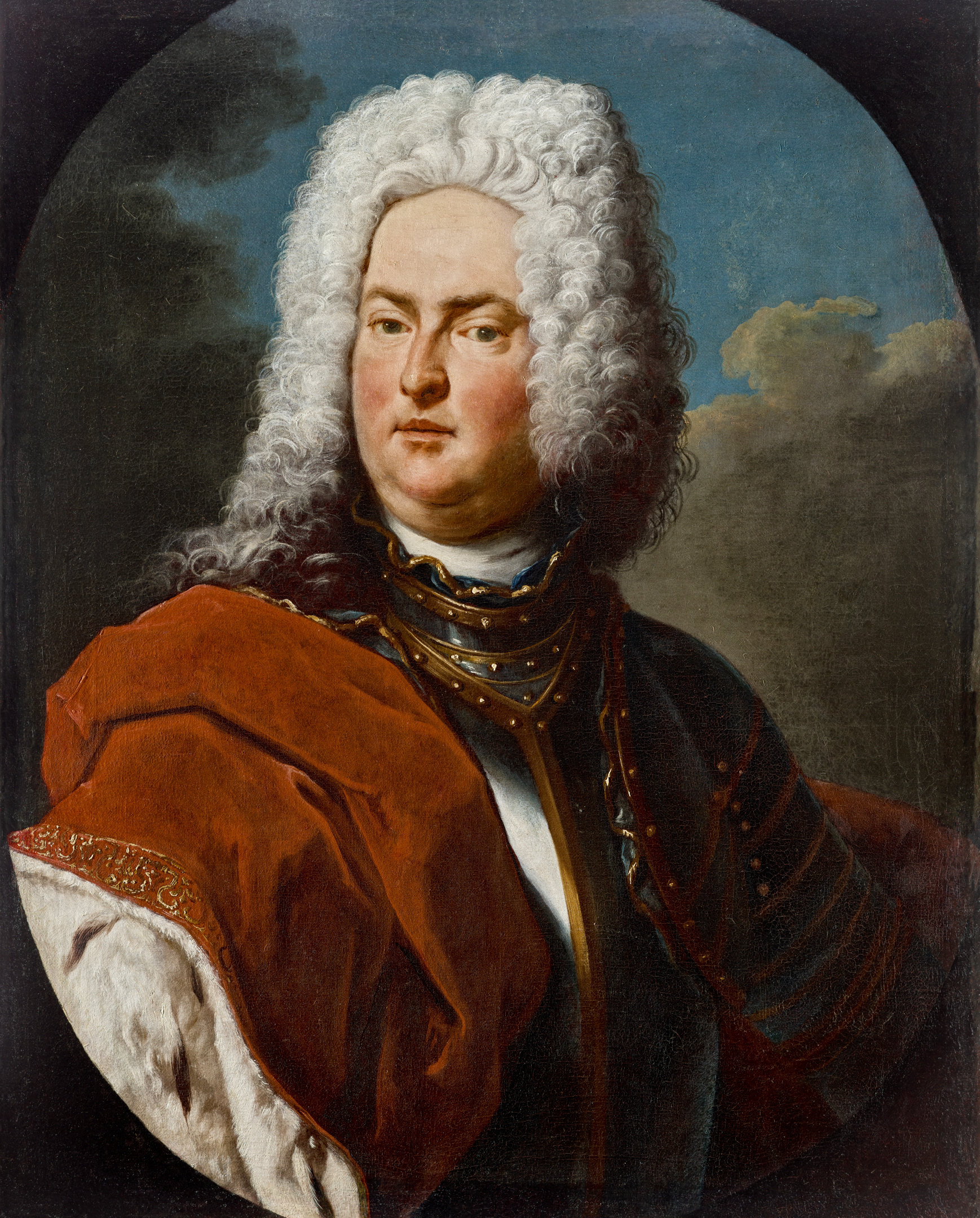 Portrait of Hans-Adam I, Prince of Liechtenstein (1657–1712)